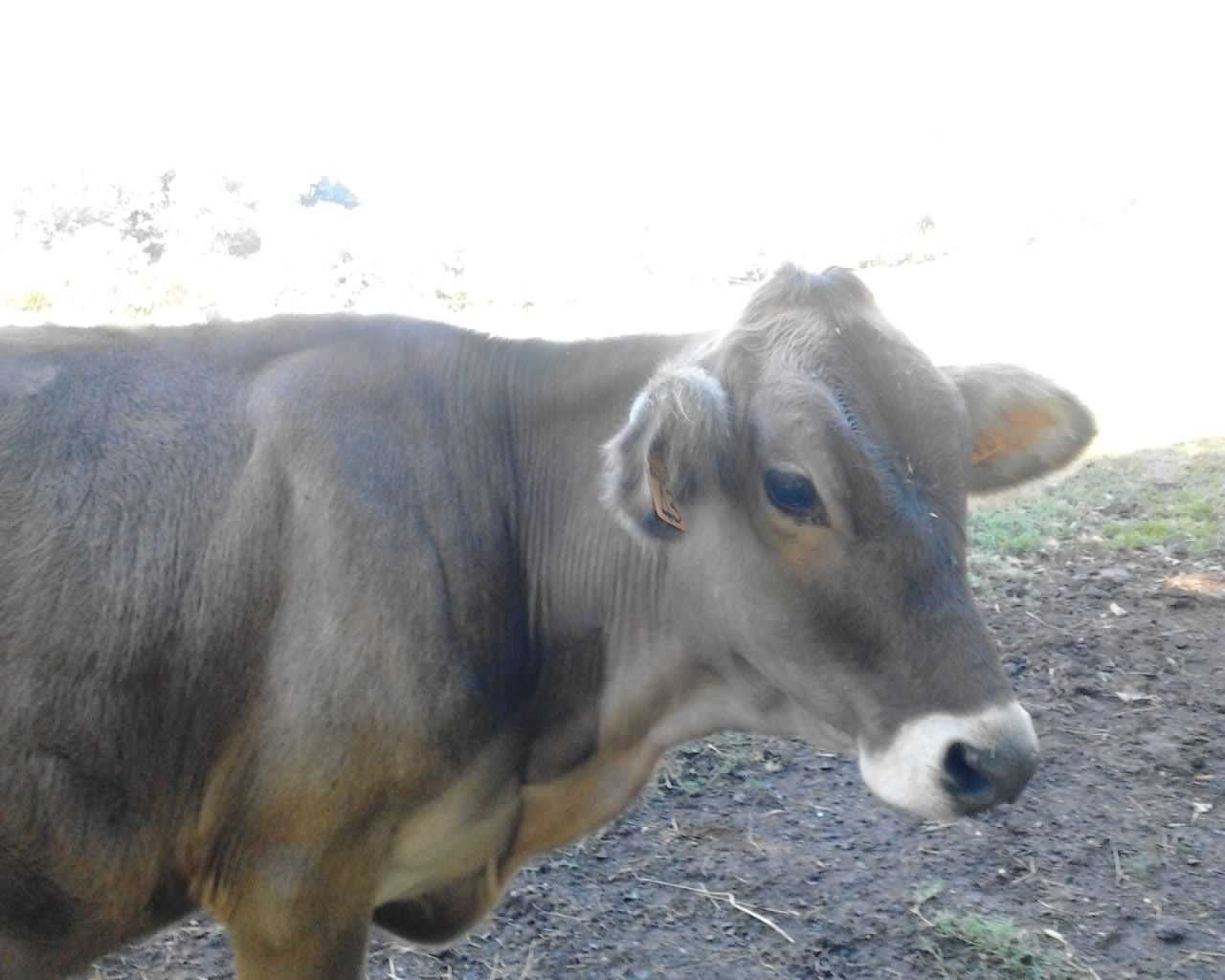 Murnau-Werdenfelser cattle in Eupilio ITALY